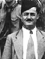 Cropped photo of participants in the 1937 Bloudan Conference. This picture shows Hamad Sa'b, a Lebanese Arab nationalist commander